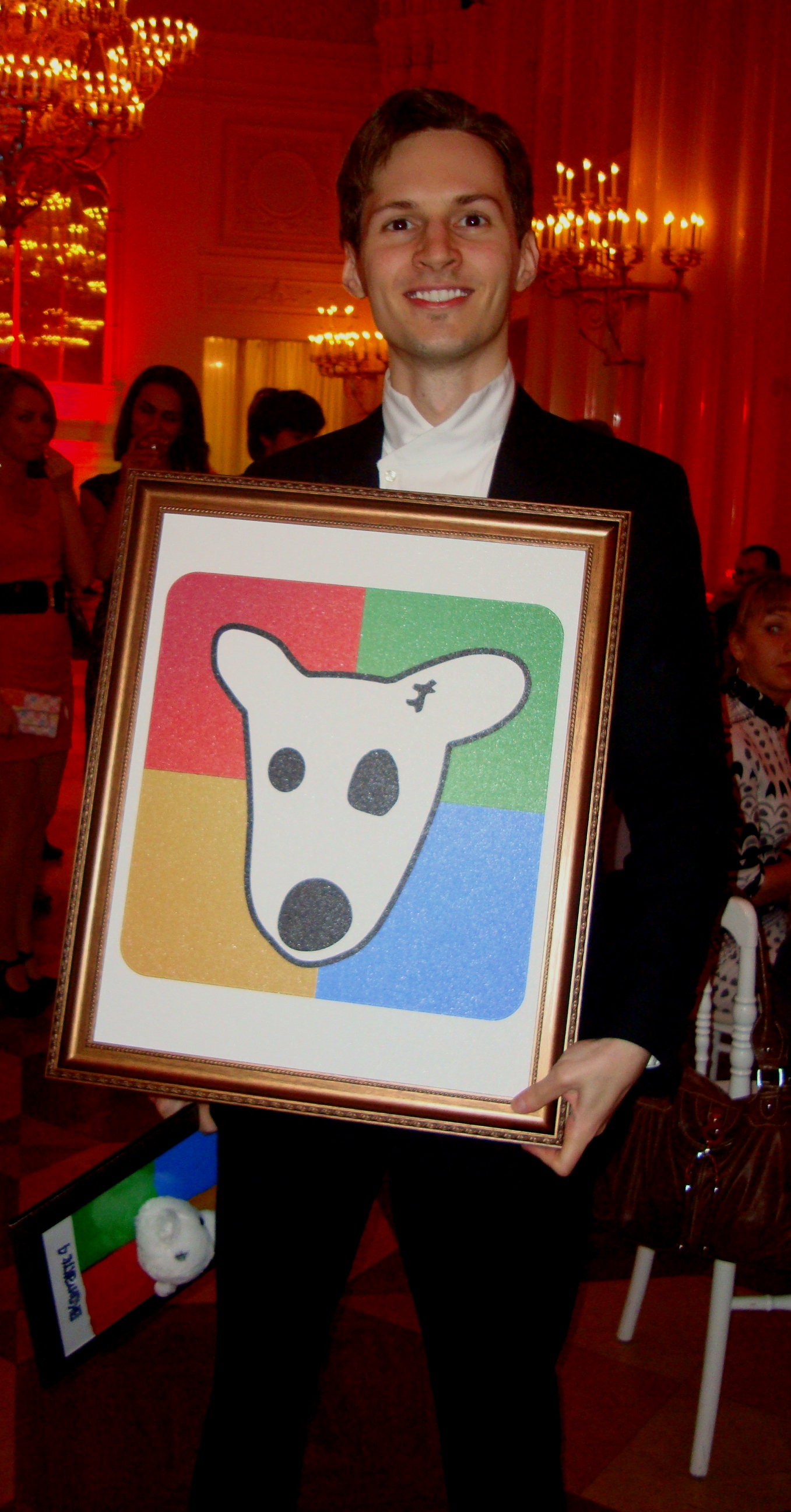 Pavel Durov, on his 26th birthday. Marble Palace